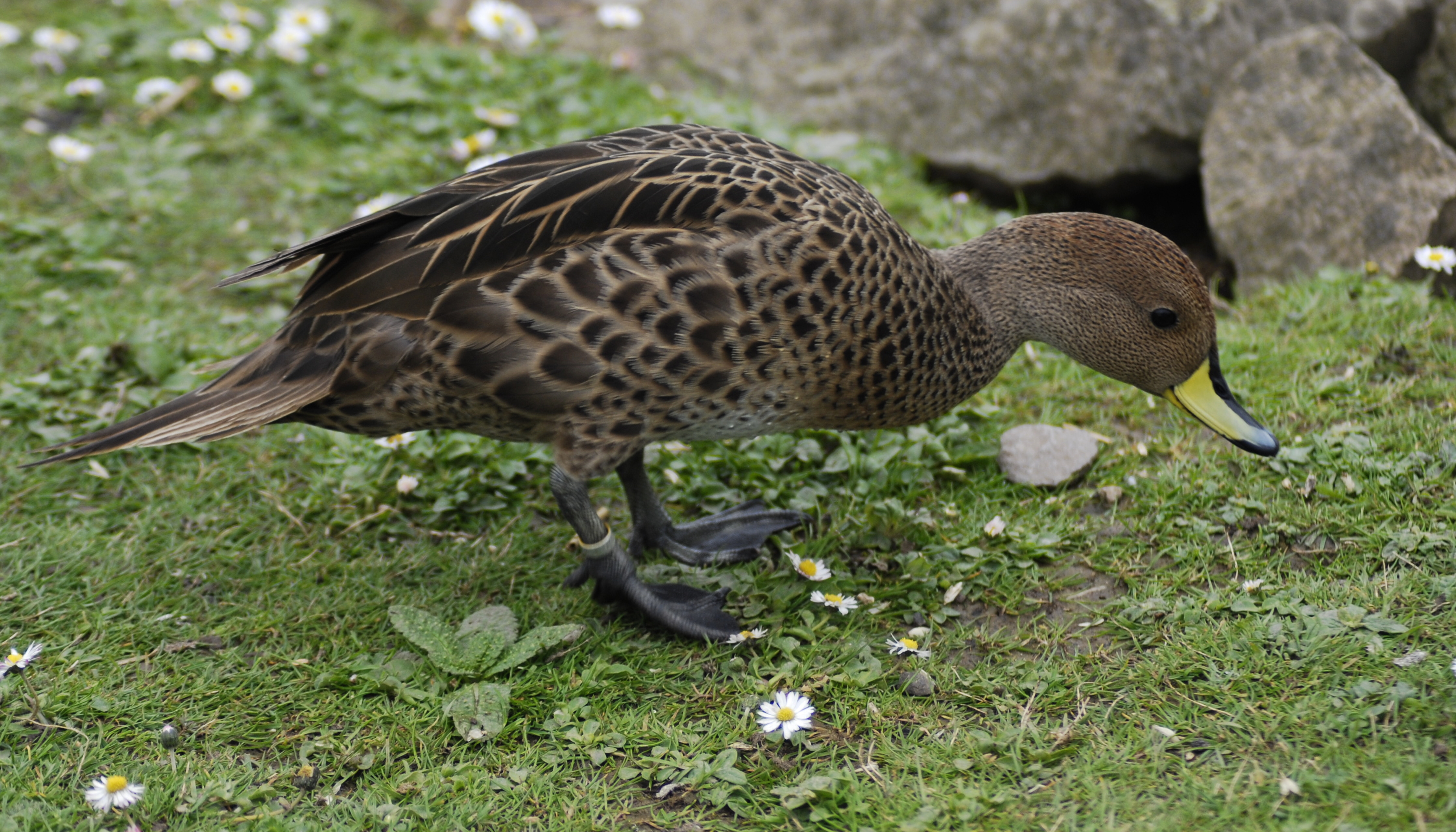 South Georgia Pintail (Anas georgica georgica) at WWT Slimbridge